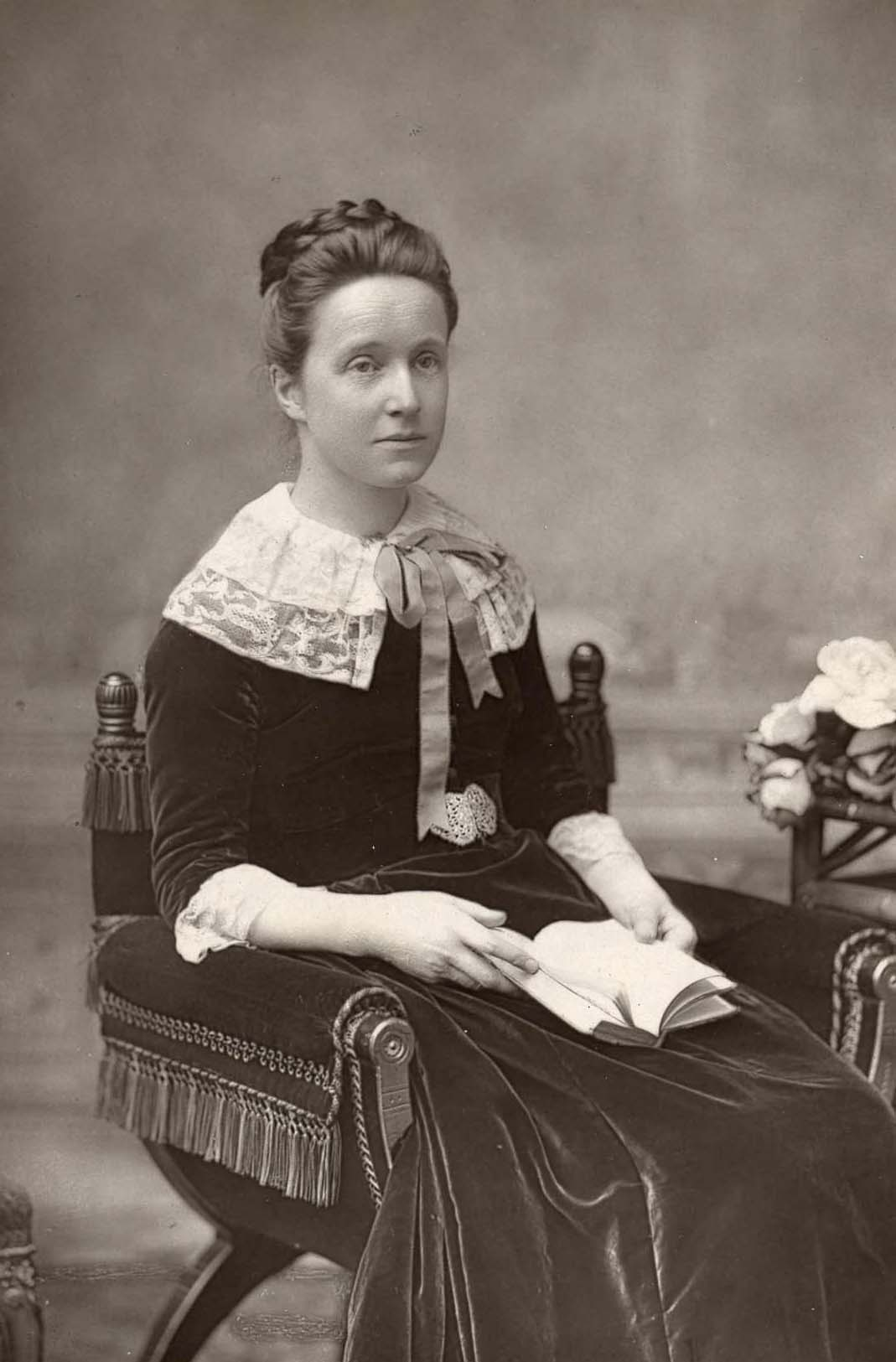 Dame Millicent Fawcett. 1847-1929.